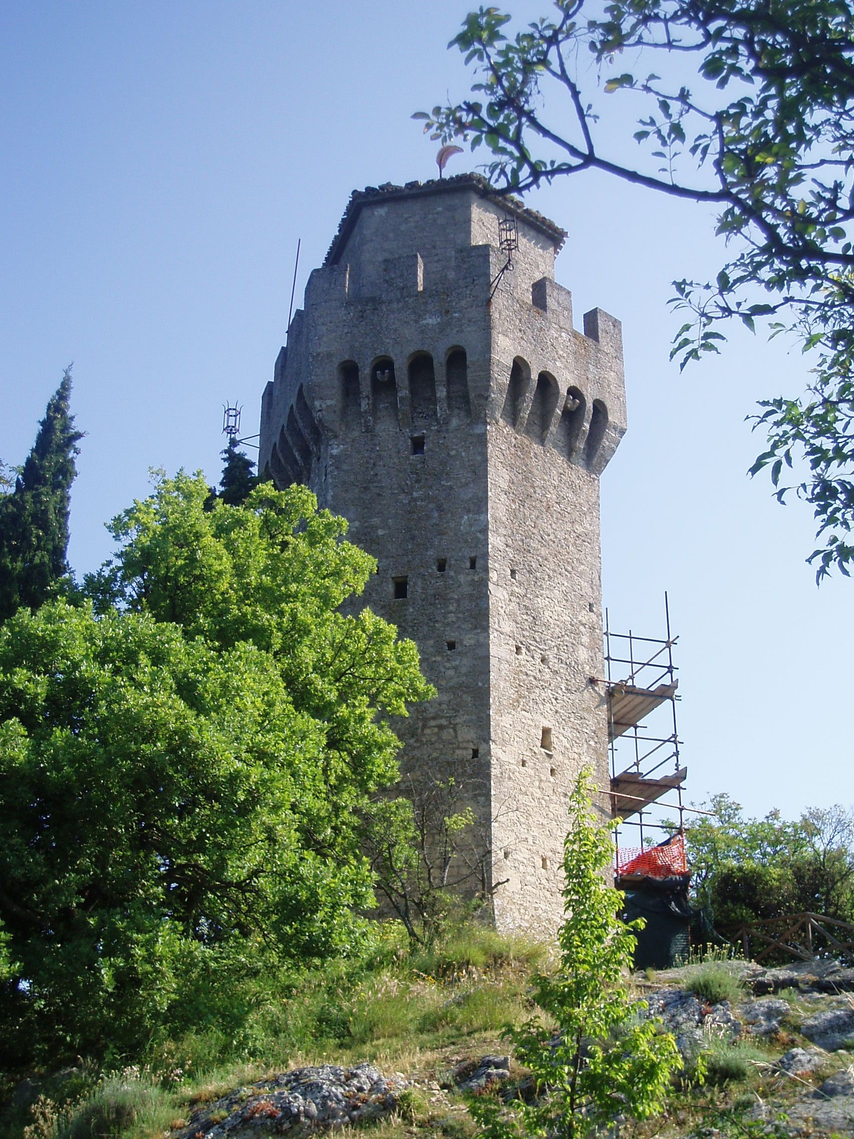 Third tower of San Marino